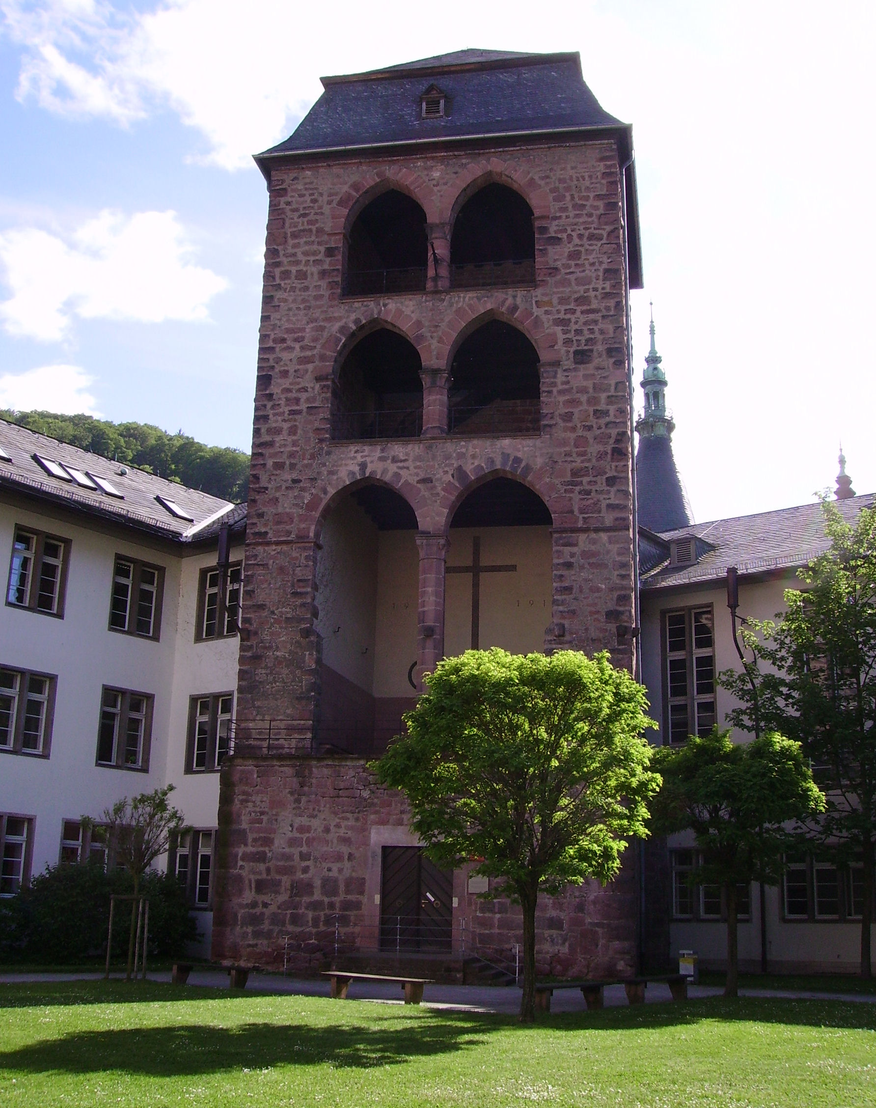 university of Heidelberg, Germany